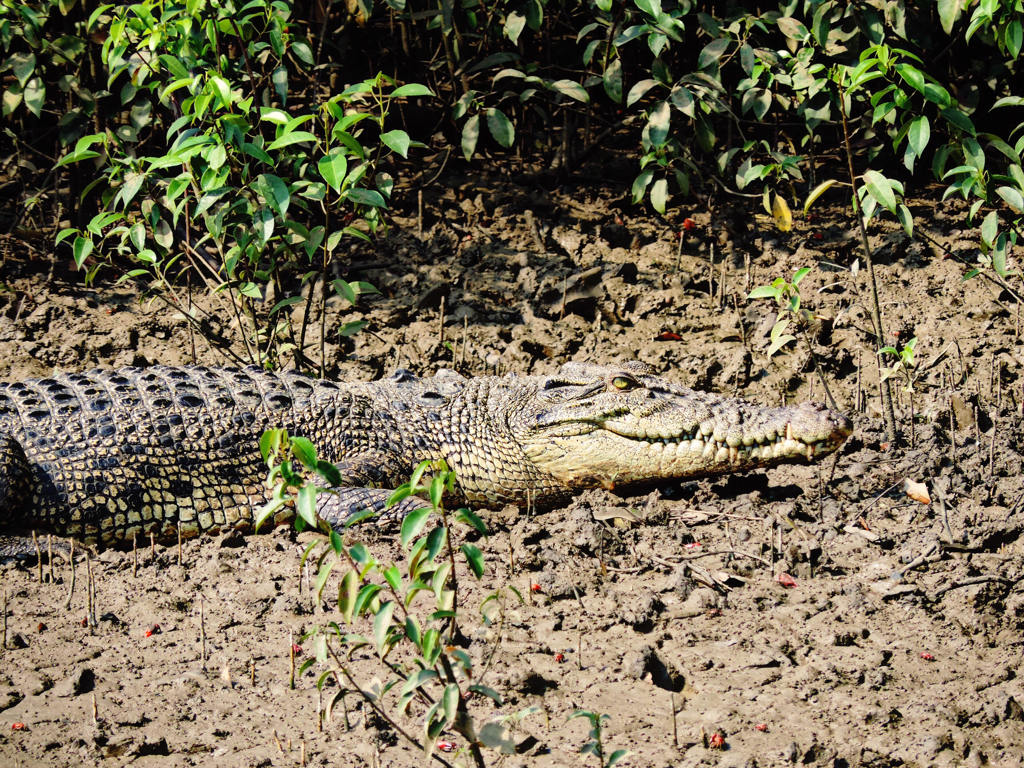 At Bhitarkanika National Park